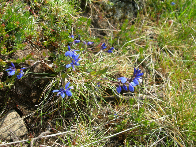 Common Milkwort (Polygala vulgaris) This little gem adds a splash of spring colour to the rough grazing land.